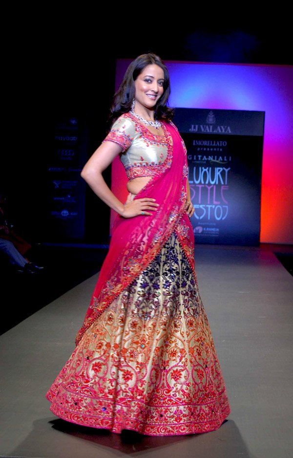 Geetanjali Luxury Style Festival 2007